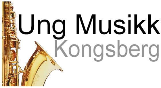 Logo for Ung Musikk Kongsberg Norsk (bokmål): Logo for Ung Musikk Kongsberg